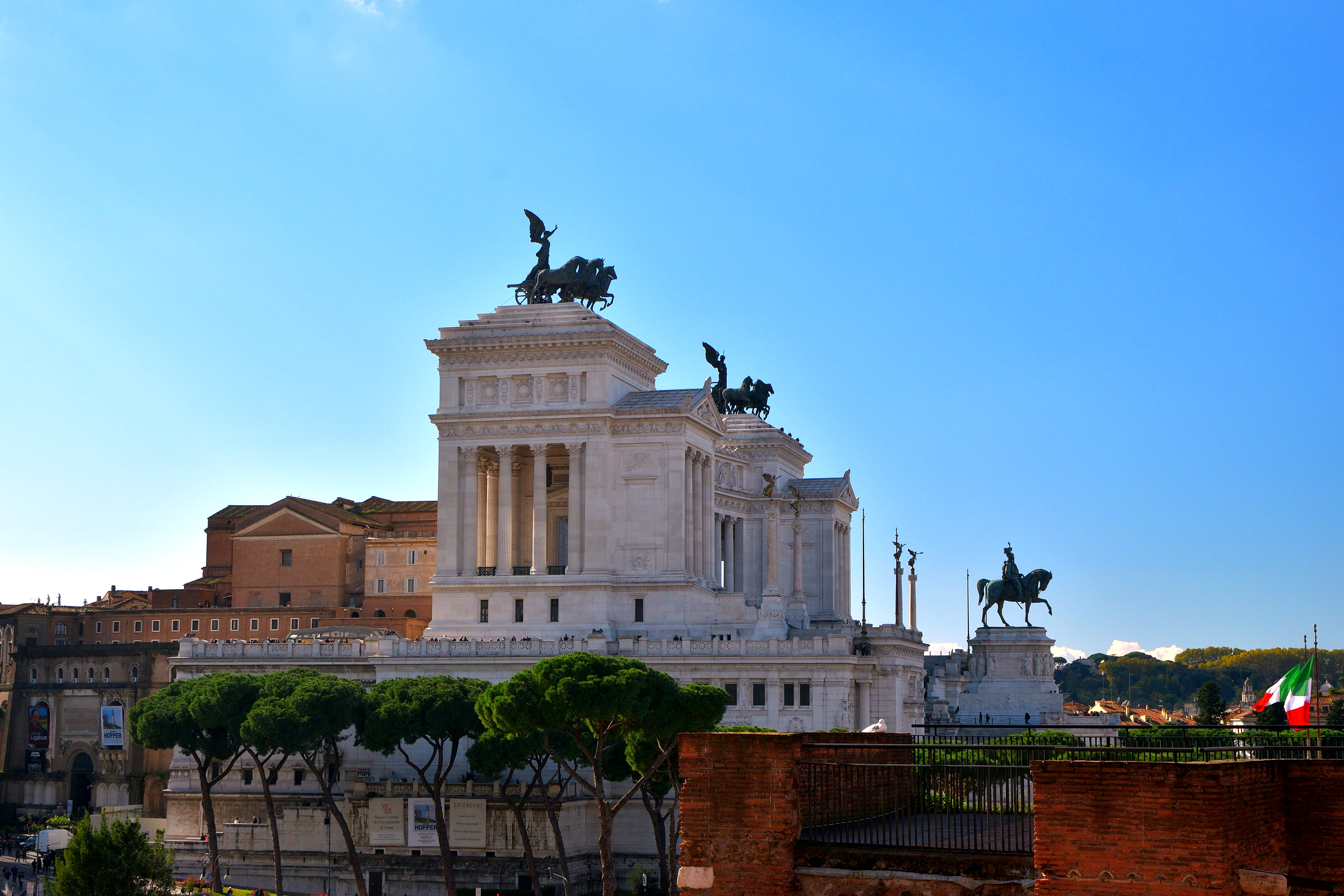 The Monumento Nazionale a Vittorio Emanuele II (east side) seen from the Trajan's Forum.